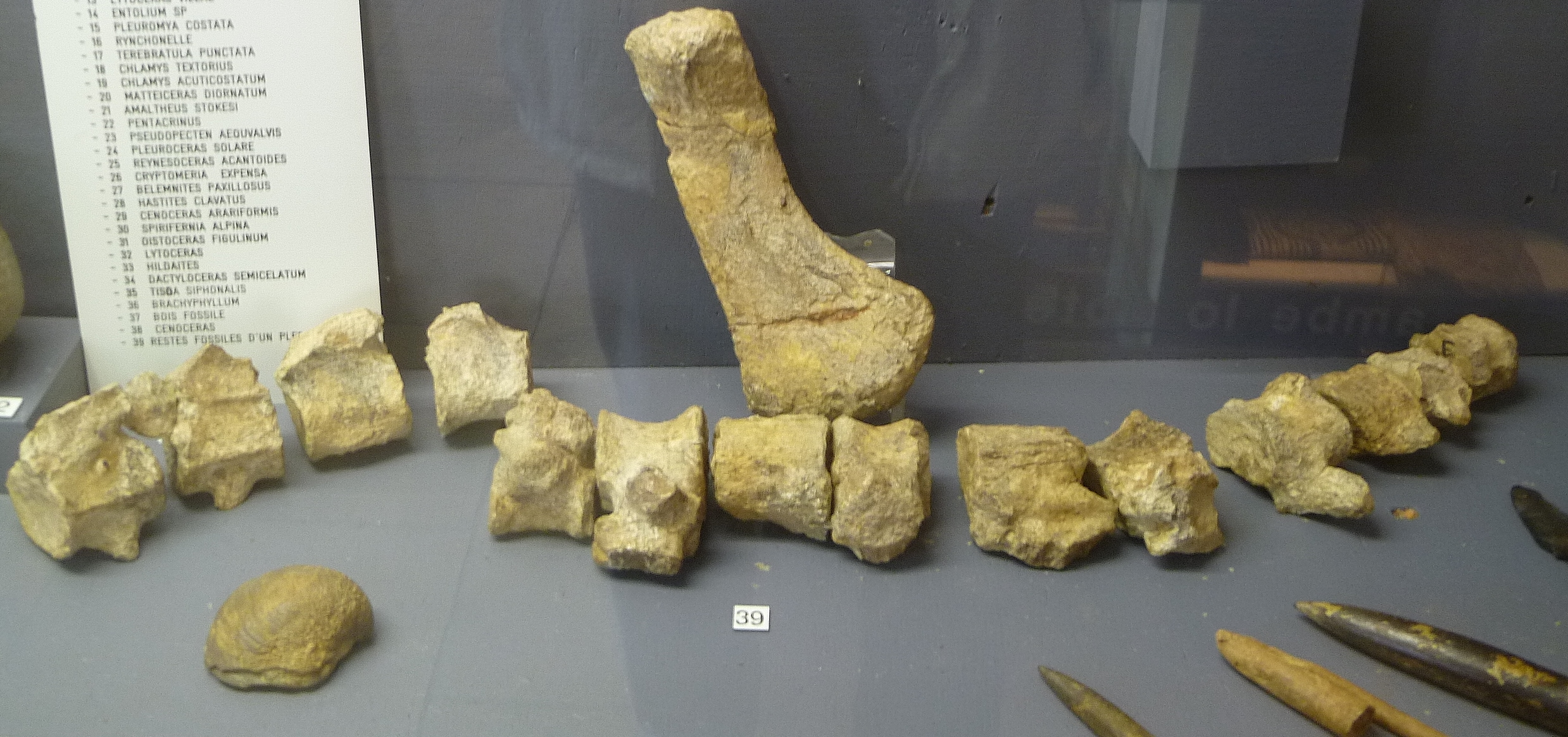 Fossils of Microcleidus tournemirensis Sciau et al., 1990 (synonyms: Occitanosaurus tournemirensis; originally "Plesiosaurus" tournemirensis); Musée Joseph-Vaylet, Espalion, France